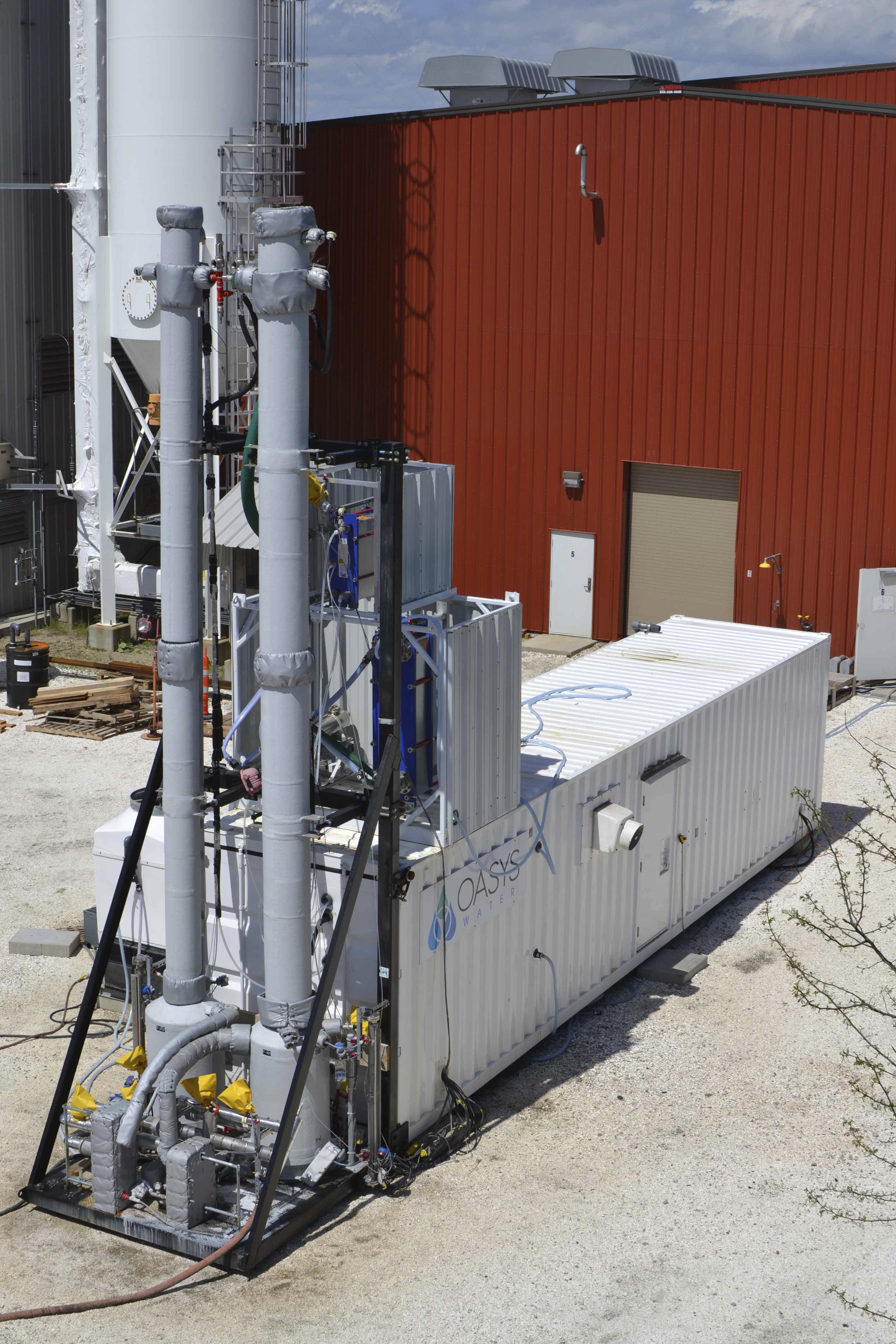 Oasys Pilot NH3/CO2 FO brine concentration system